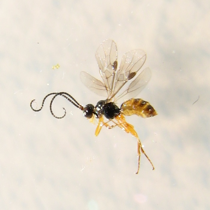 Braconid wasp, Bracon. Size: 3 mm. Willow Grove, Montgomery County, Pennsylvania, USA.